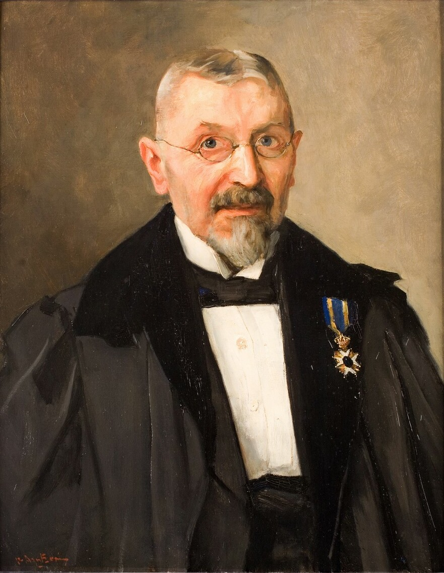 Frederik Pijper (1859-1926), professor theology Leiden University